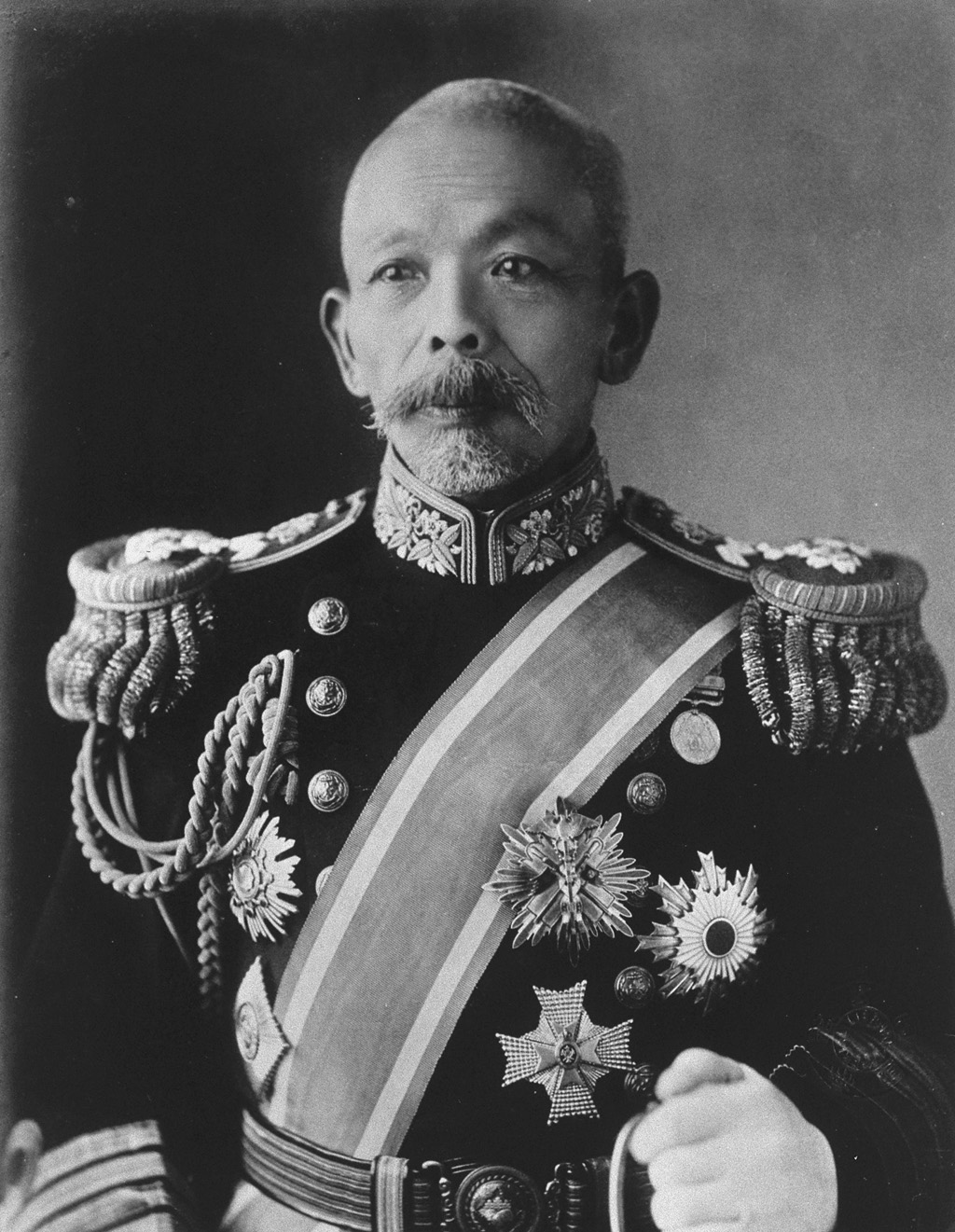 Portrait of Kataoka Shichiro (片岡七郎, 1854 – 1920)